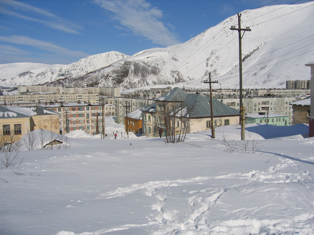 City of Kirovsk